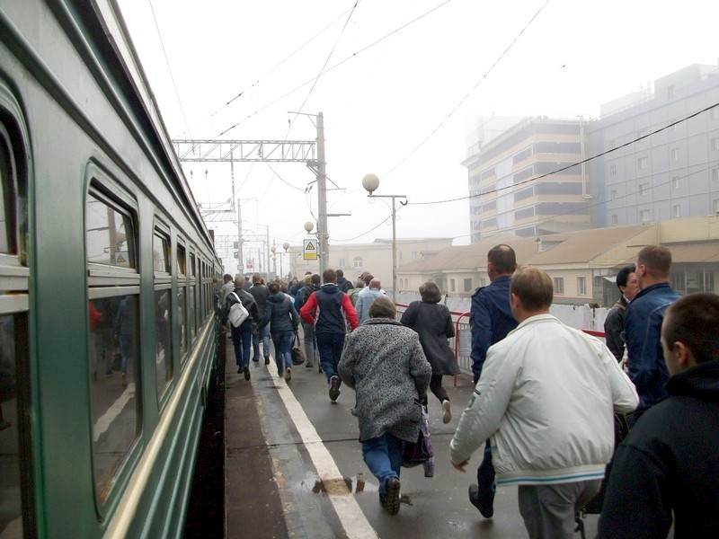 Stowaways running from ticket conductors to checked part of a train. Zheleznodorozhnaya station, Russia